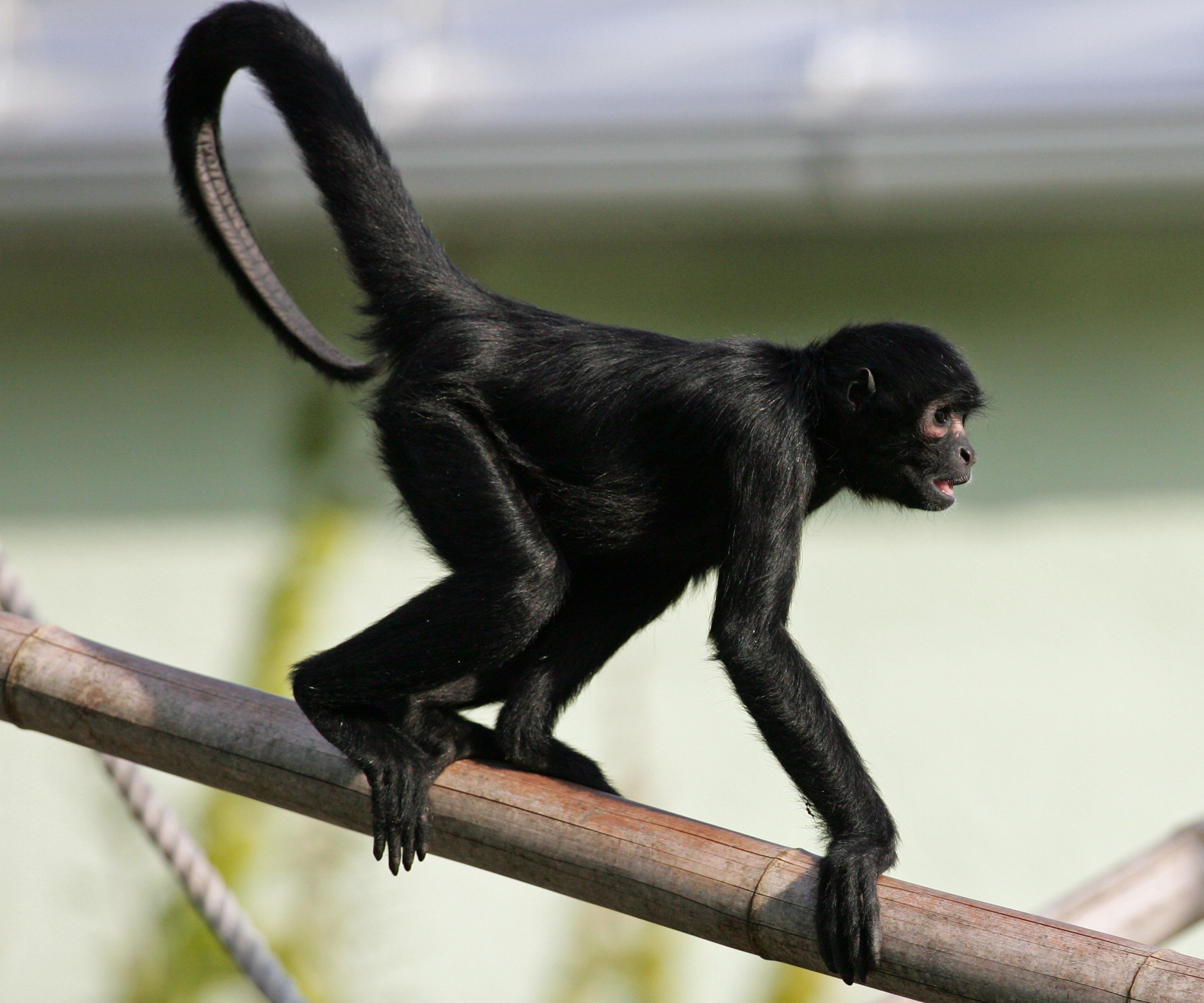 Ateles fusciceps robustus moving.JPG